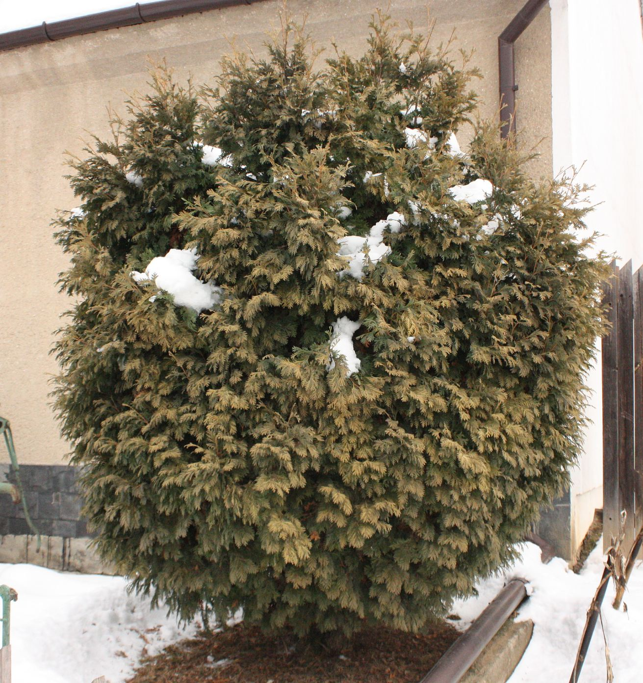 Czech republic, EU, Brno Komín, Thuja occidentalis